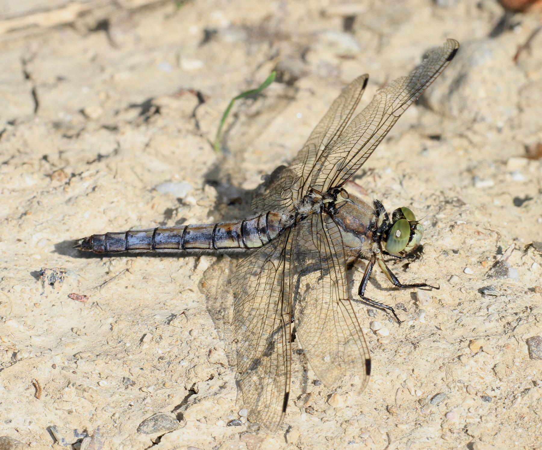 Orthetrum cancellatum: old female with pruinosity